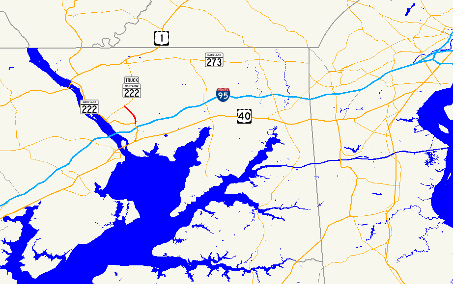 Map of Maryland Route 275